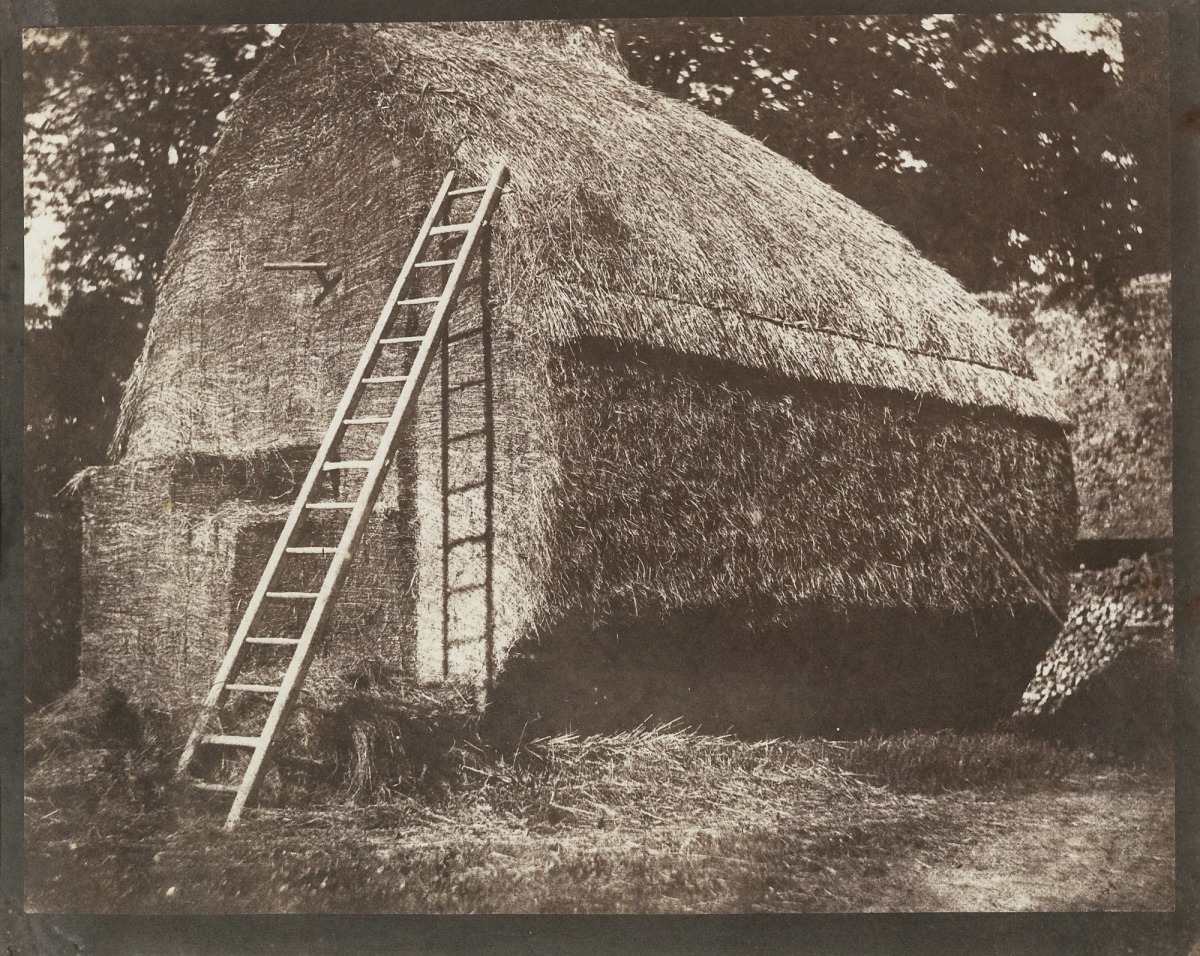 William Henry Fox Talbot, The Haystack, 1844. From the online collections of the National Gallery of Canada.